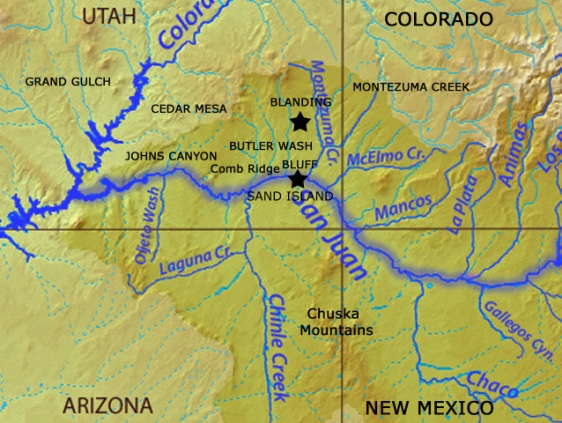 Derivative of a map of the upper San Juan River Basin, southwestern US. Additional place names and approximate locations for place names are supplied and/or enhanced.